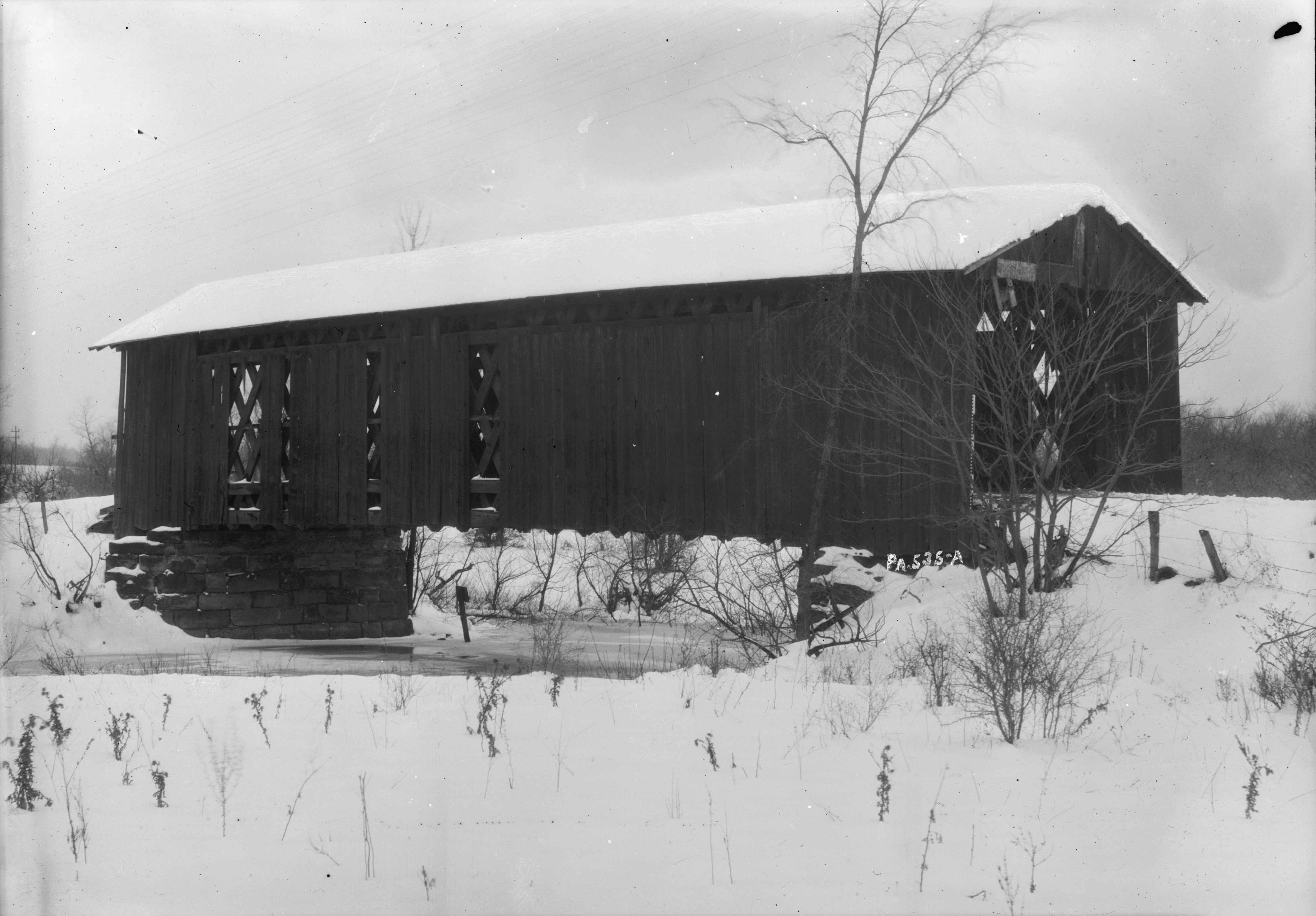 The Waterford Covered Bridge outside Waterford, Pennsylvania. Original number was "HABS PA,25-WAFO,4-1", original caption was "Exterior (Southeast Elevation)."